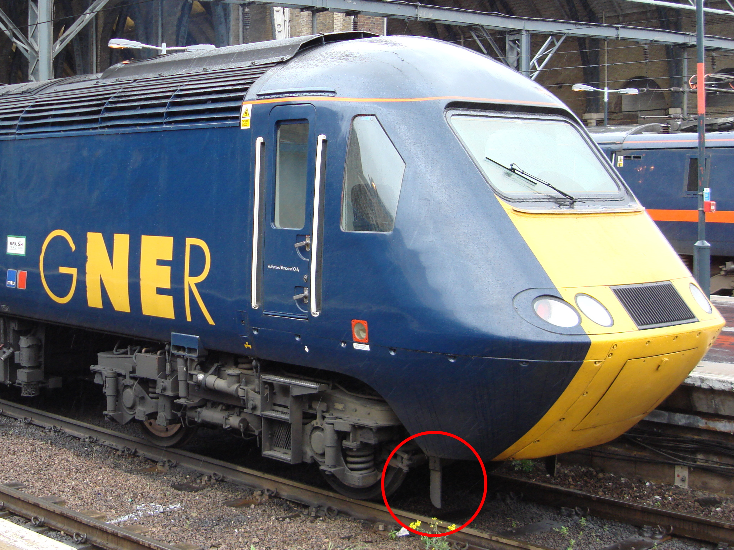 GNER HST powercar 43330 at King's Cross with the lifeguard circled.